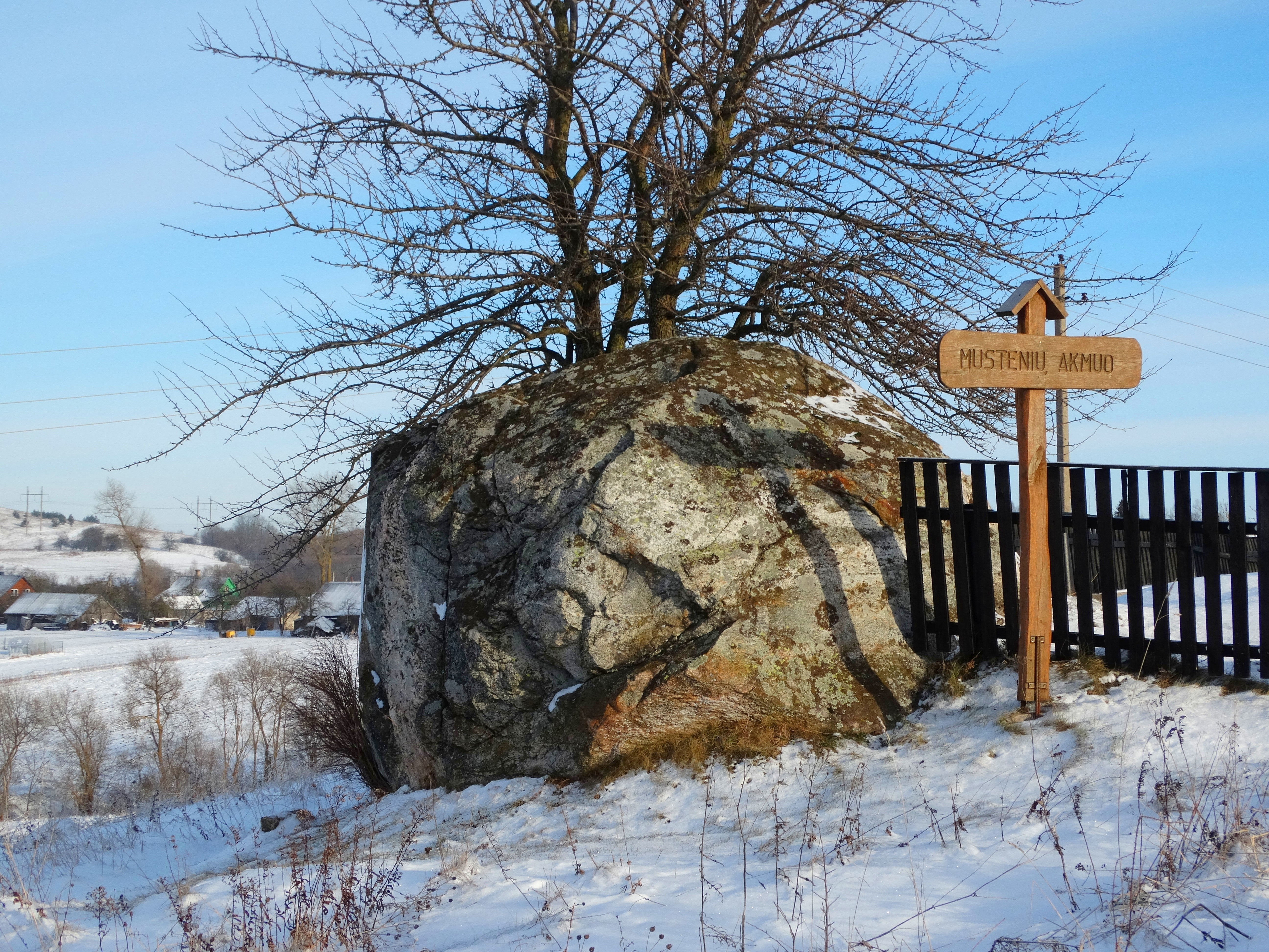 Stone, Musteniai, Elektrėnai Municipality, Lithuania